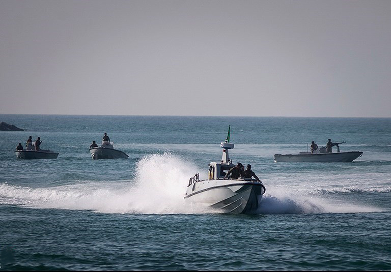 Velayat 94 Military exercise that hold in February 2016 in the range of Strait of Hormuz and northern Indian Ocean